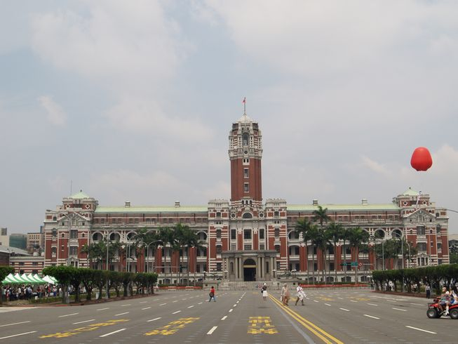 Presidential Building of the Republic of China, Taken by ResTpeTw on May 6th 2007.